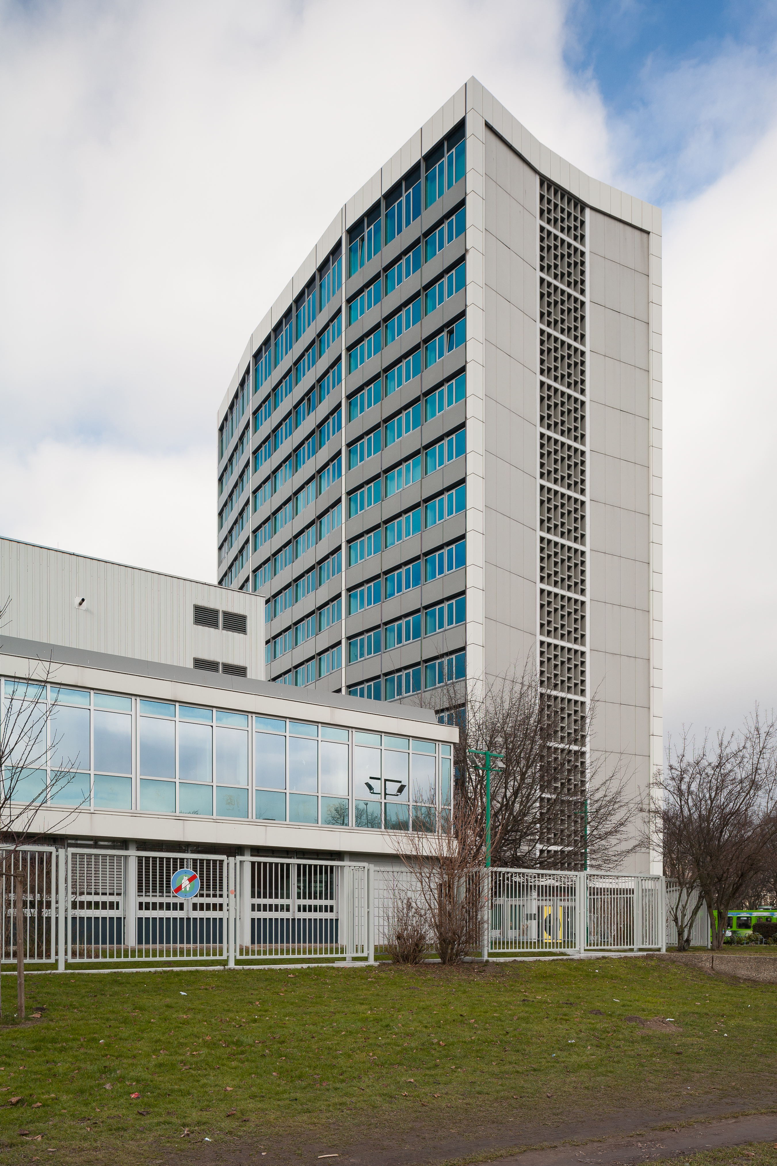 Office building of Lower Saxony's main finance authority located at Auestrasse no. 14 in Linden-Sued district of Hanover, Germany.